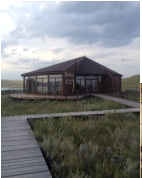 Visit center of the Khakassia Nature Reserve on Itkul Lake